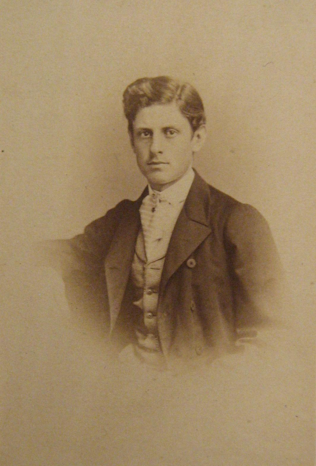 Photography by the painter Axel Borg, about 1867-68